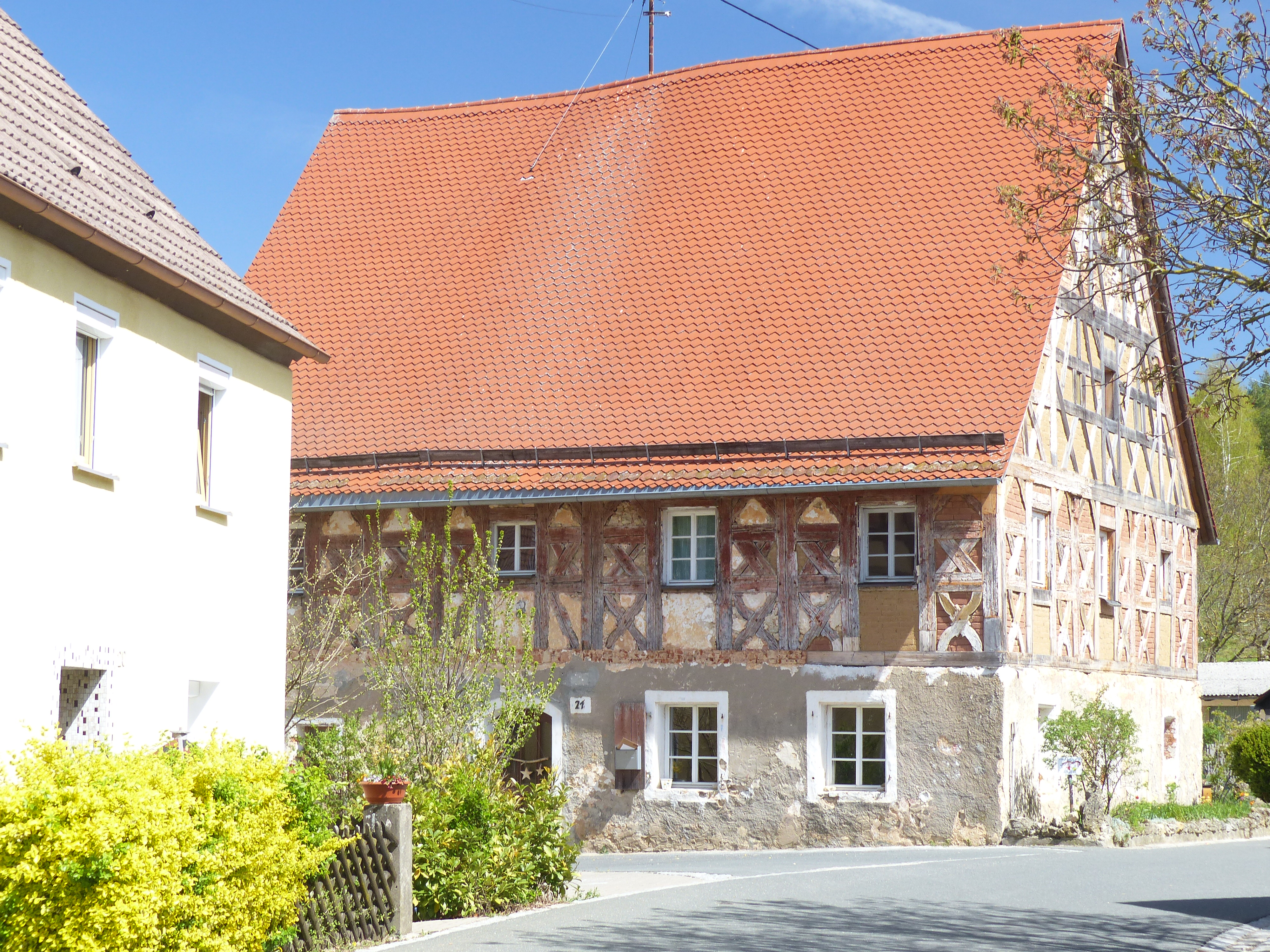 A former inn in the village Schossaritz, a district of the municipality Hiltpoltstein